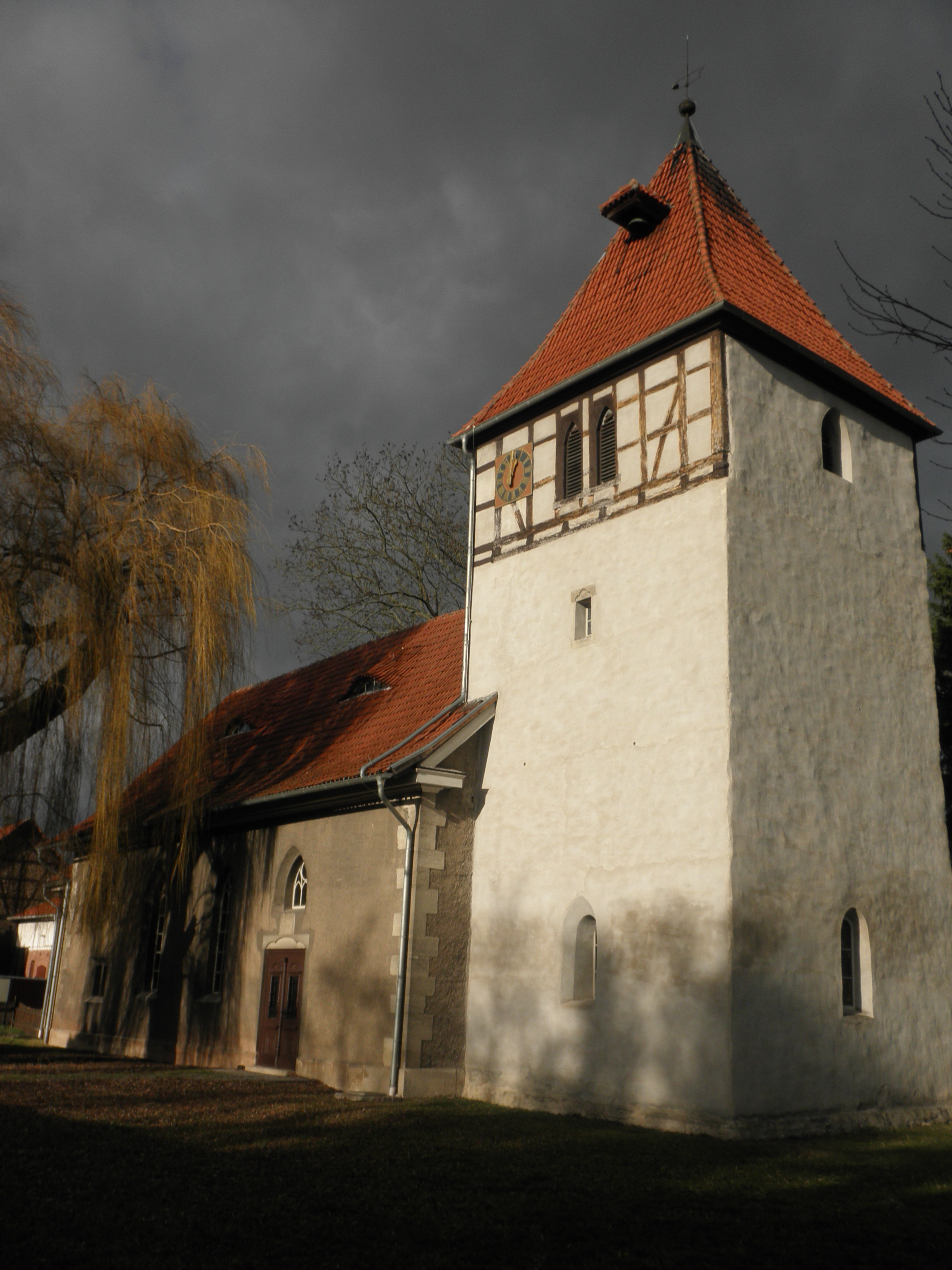 Church in Obermehler in Thuringia